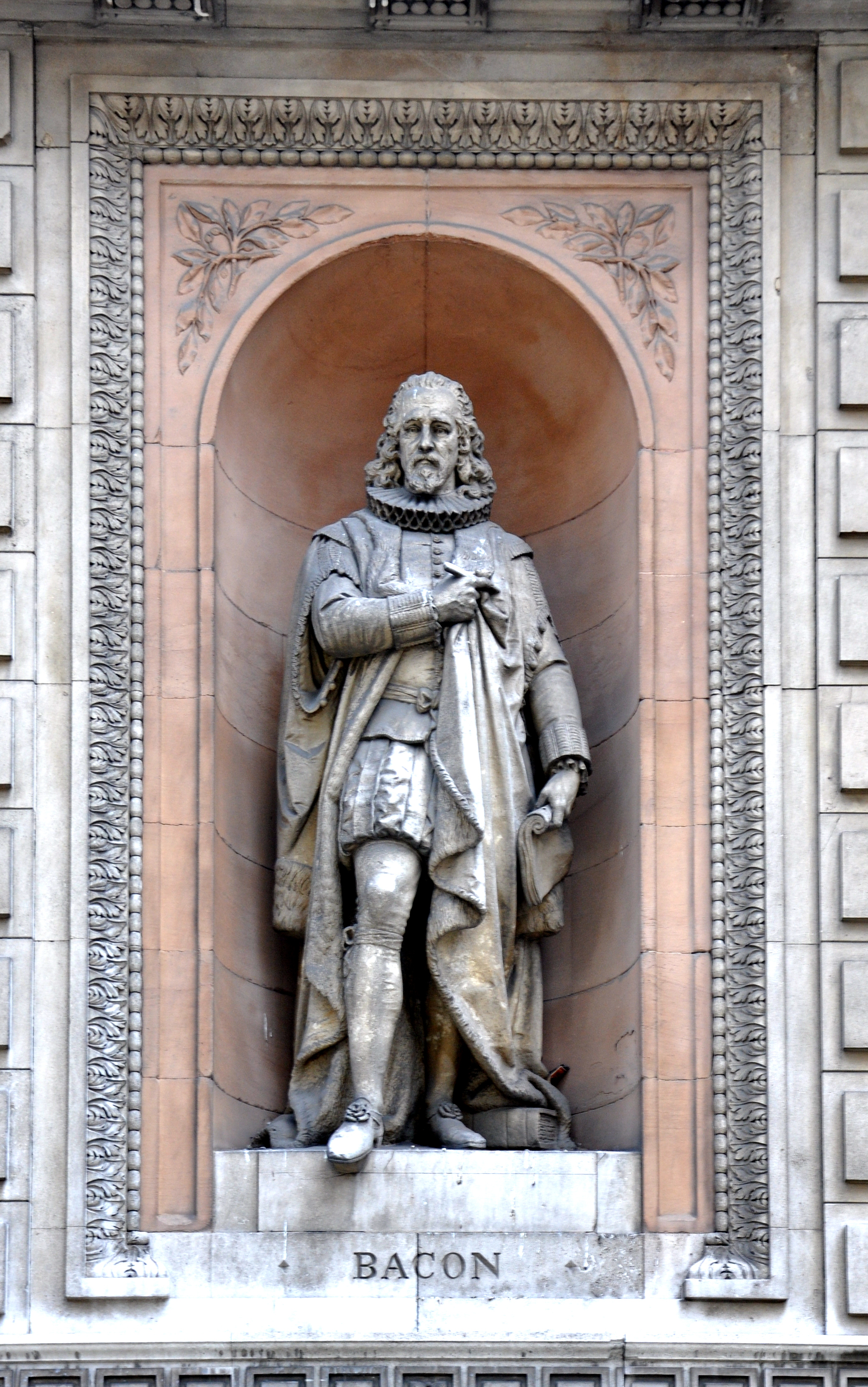 London, 6 Burlington Gardens (built 1867–1870 as headquarters of the University of London), façade statue of Francis Bacon